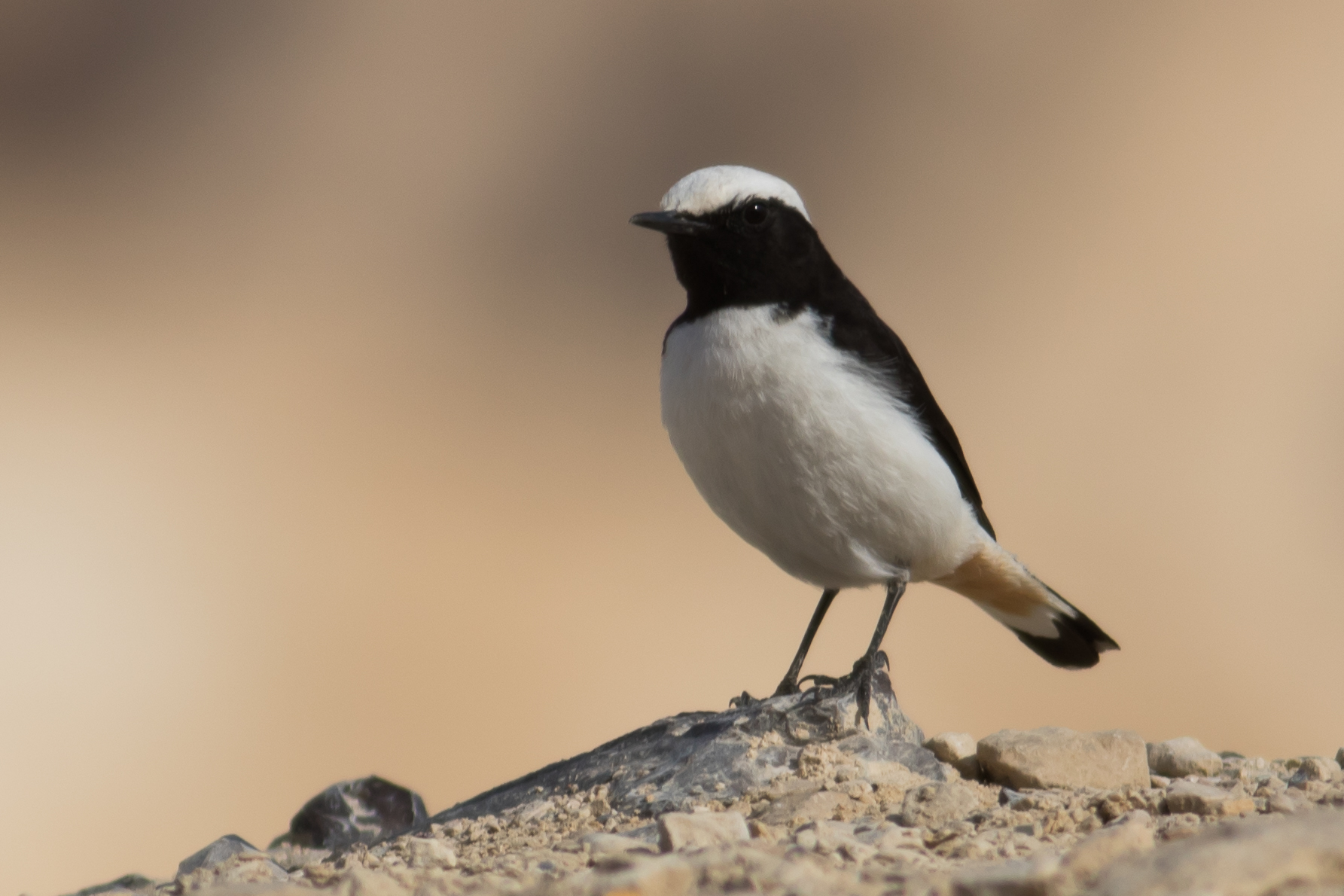 Mourning wheatear (Oenanthe lugens),photo taken next to Sde Boker, Israel.